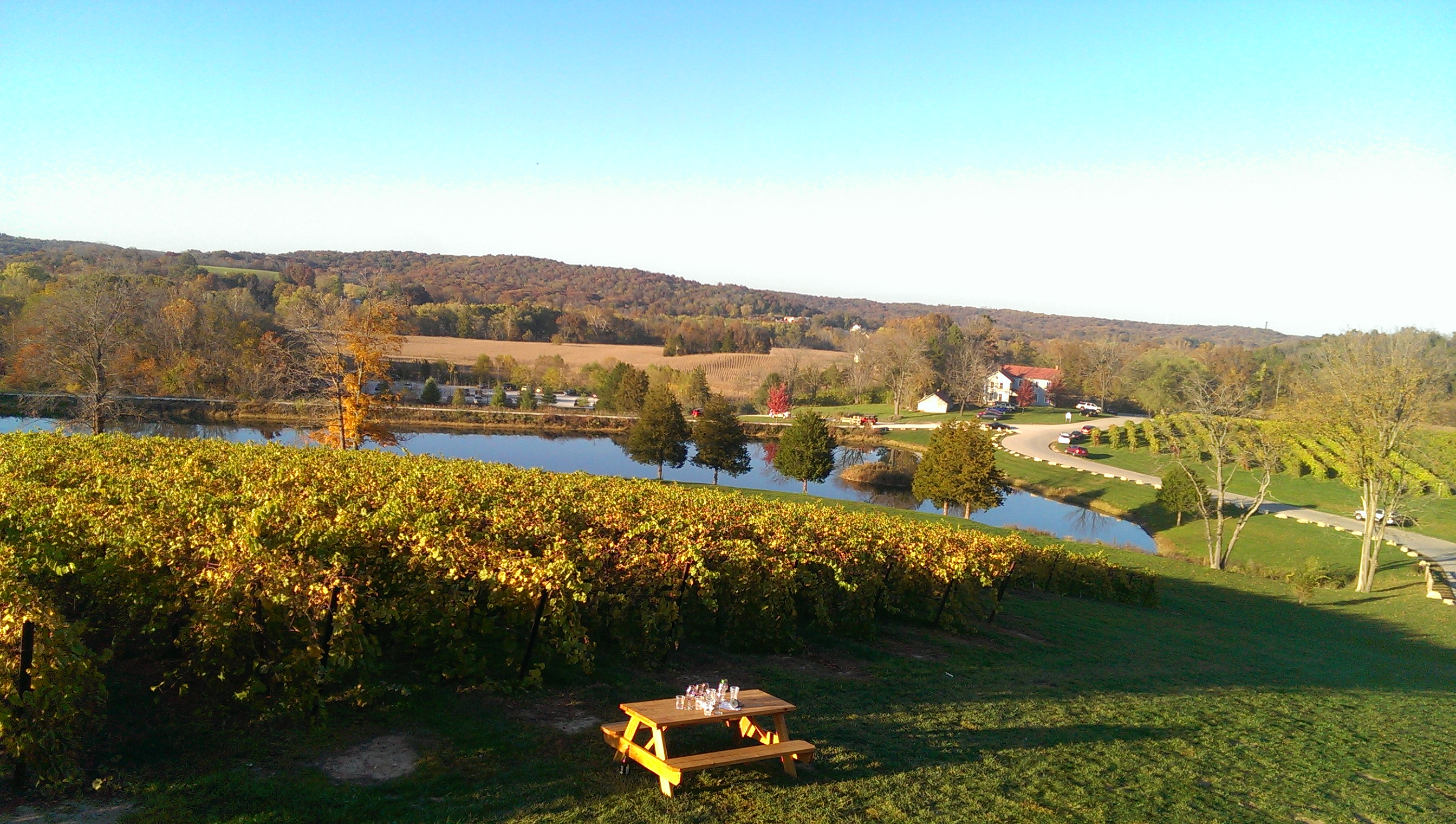 View at the Chandler Hill Vineyard in Defiance, Missouri